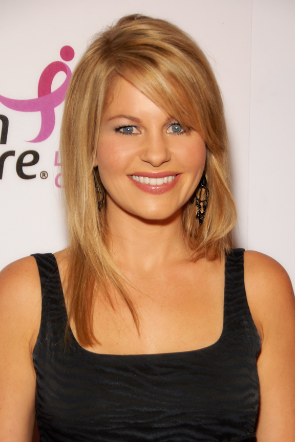 Candace Cameron Bure attending "Susan G. Komen's 8th Annual Fashion For The Cure" event - Hollywood, CA on Sept. 24, 2009 - Photo by Glenn Francis of